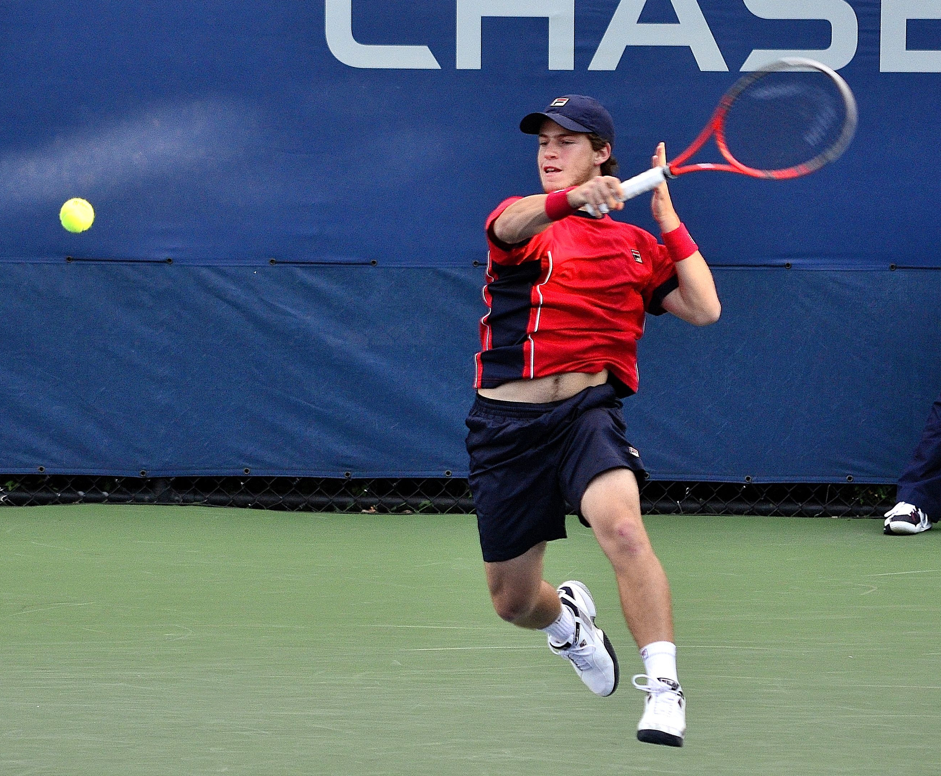 2013 US Open (Tennis) - Qualifying Round - Diego Schwartzman